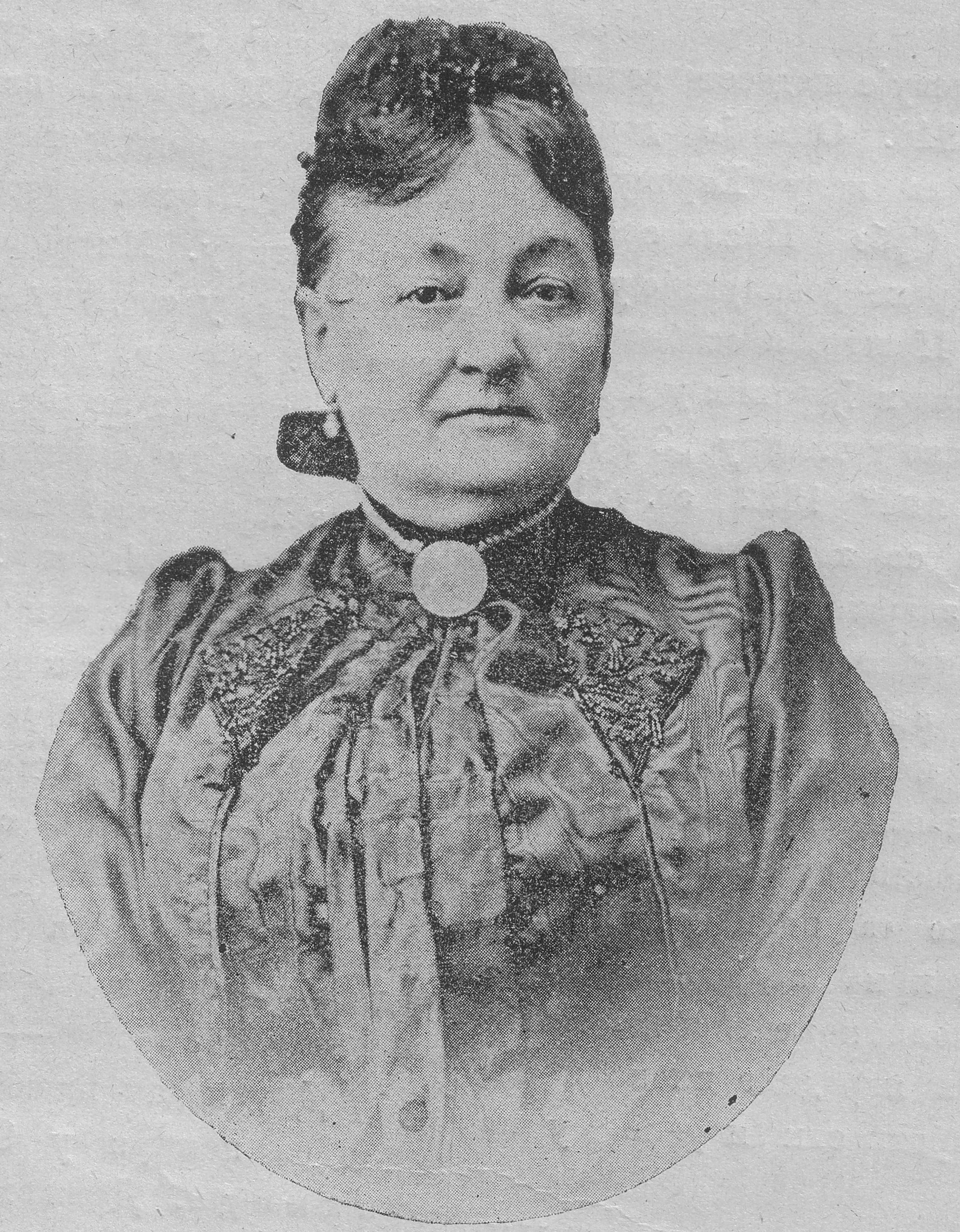 Emilija Munčić (1828-1903), a benefactor from Veliki Bečkerek (Zrenjanin). Taken from the 1898 edition of the calendar Orao. Srpski (latinica): Emilija Munčić (1828-1903), dobrotvorka iz Velikog Bečkereka (danas Zrenjanina). Preuzeto iz izdanja kalendara Orao za 1898. godinu.